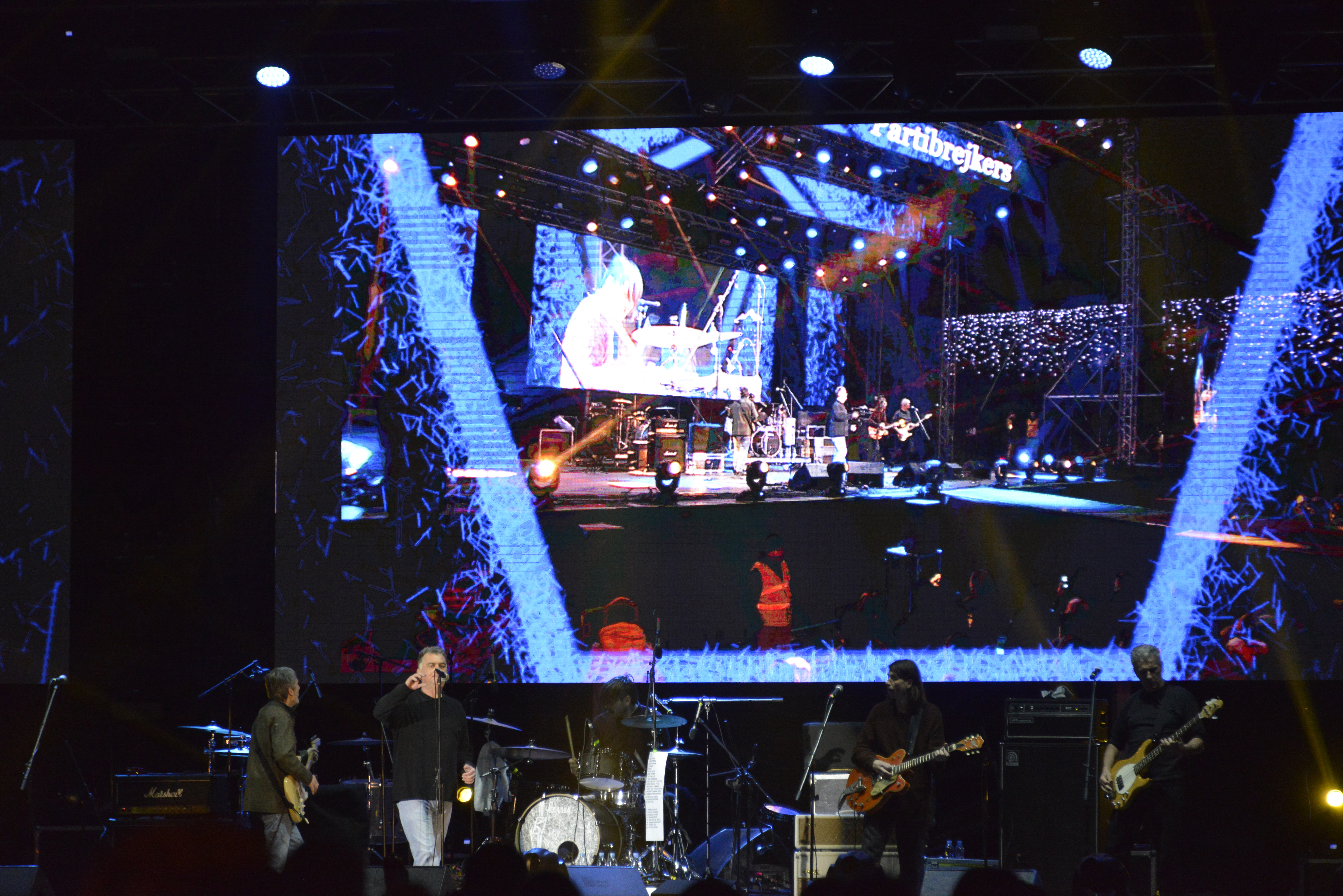 Partibrejkers rock concert in Budva (Montenegro), January 1, 2019